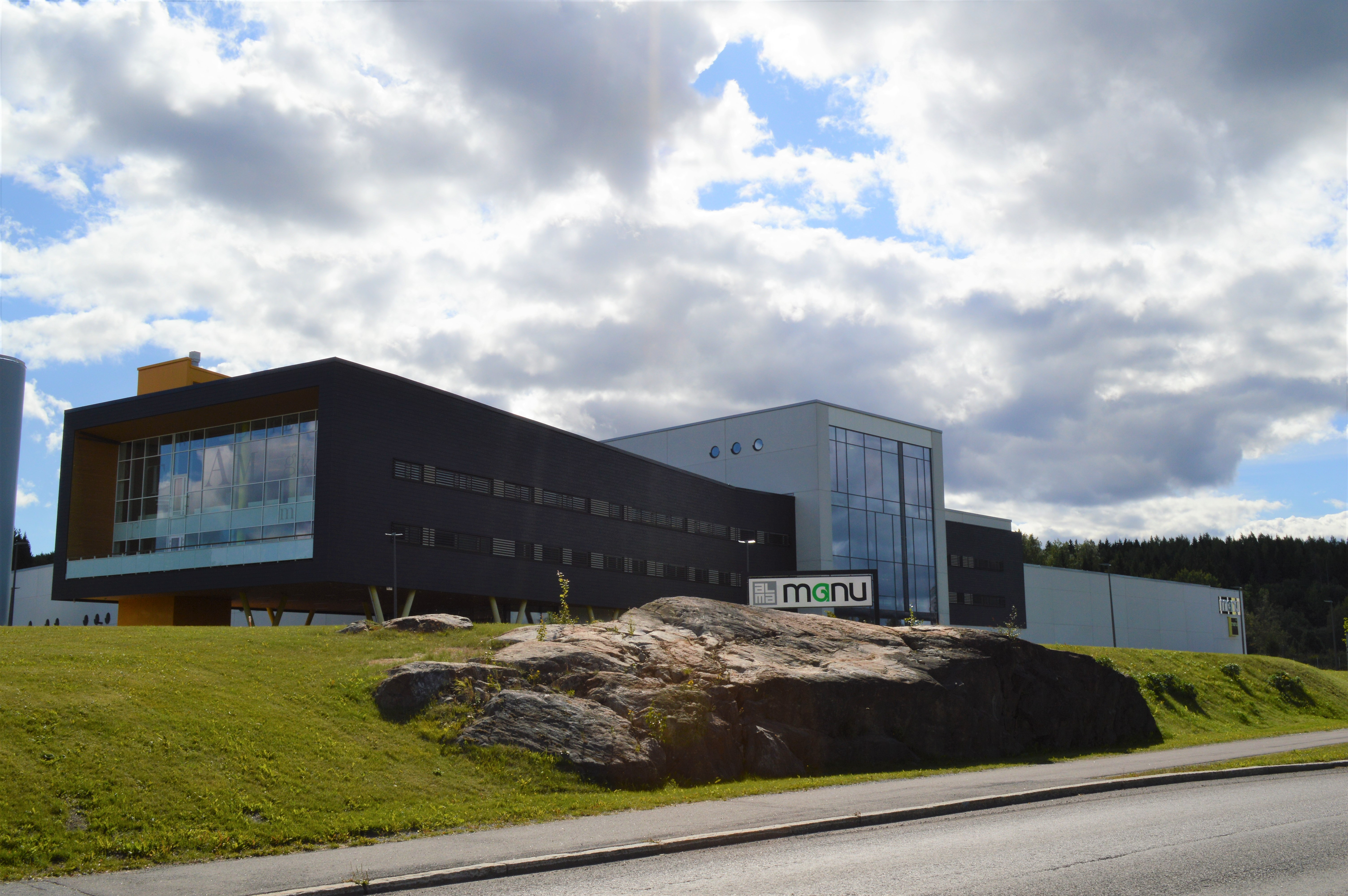 The printing facility of Alma Manu at Sarankulma, Tampere